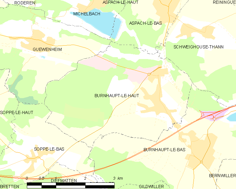 Map of French municipality